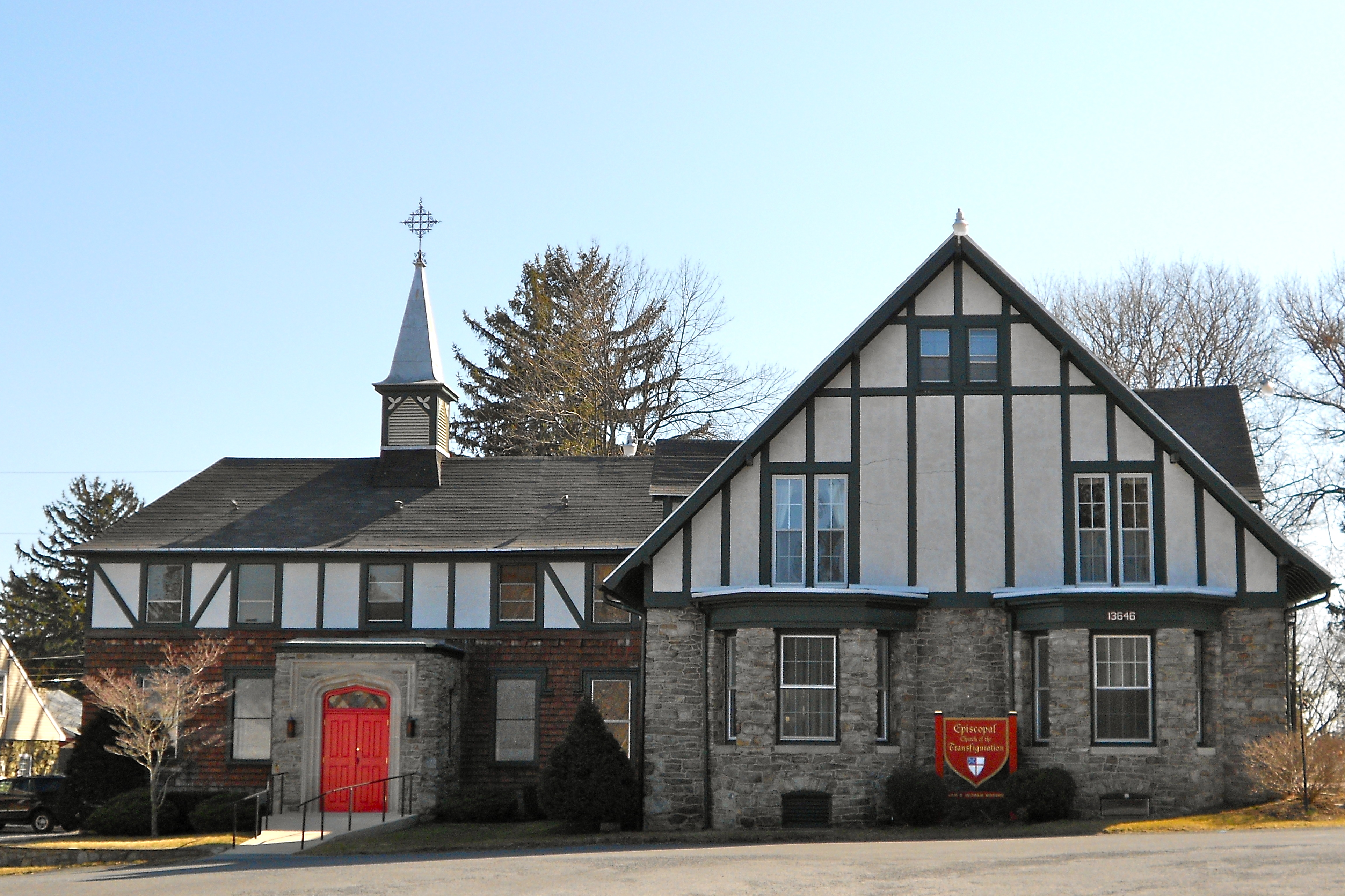 Episcopal Church of the Transfiguration in Blue Ridge Summit, Pennsylvania, across from the library. This is in an old resort town and the original summer church was sold off (when air conditioning became popular). This is the old community church hall, transfigured into a church. It seems likely that Wallis Simpson was NOT baptized there, though she was born nearby.